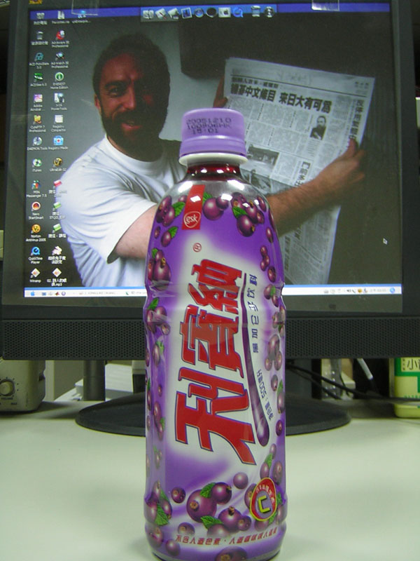 A lower resolution image (600x800) illustrating a bottle of beverage bought in Macau -- Ribena(利賓納), a product of GlaxoSmithKline, which is mainly made of blackcurrant juice.